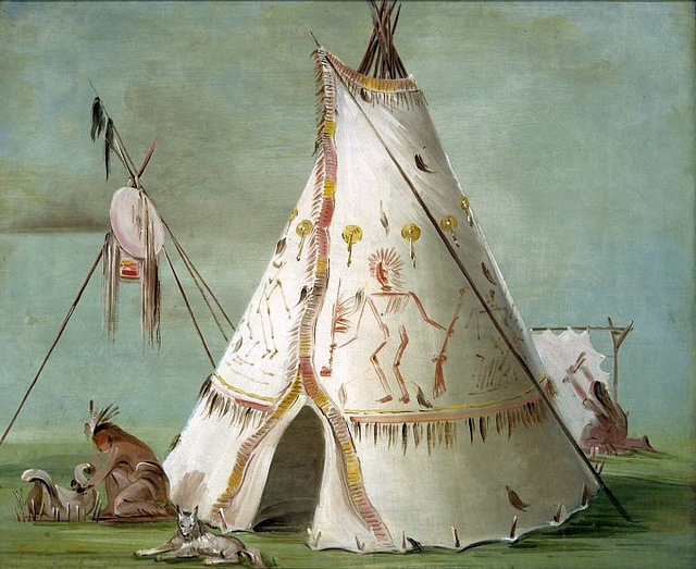 Crow Lodge of Twenty-five Buffalo Skins, 1832–33 by George Catlin. “The Crows, of all the tribes in this region … make the most beautiful lodge … they of tentimes dress the skins of which they are composed almost as white as linen, and beautifully garnish them with porcupine quills, and paint and ornament them in such a variety of ways, as renders them exceedingly picturesque and agreeable to the eye. I have procured a very beautiful one of this description, highly-ornamented, and fringed with scalp-locks, and sufficiently large for forty men to dine under. The poles which support it are about thirty in number, of pine, and all cut in the Rocky Mountains, having been some hundred years, perhaps, in use. This tent, when erected, is about twenty-five feet high, and has a very pleasing effect” (Letters and Notes, vol. 1, pp. 40–44, pl. 20).